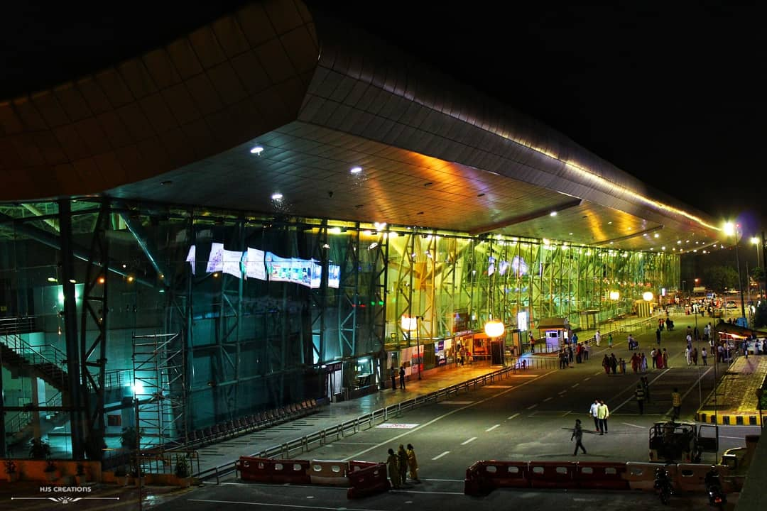 Outside image of Sri Guru Ram Dass Jee International Airport, Amritsar, India